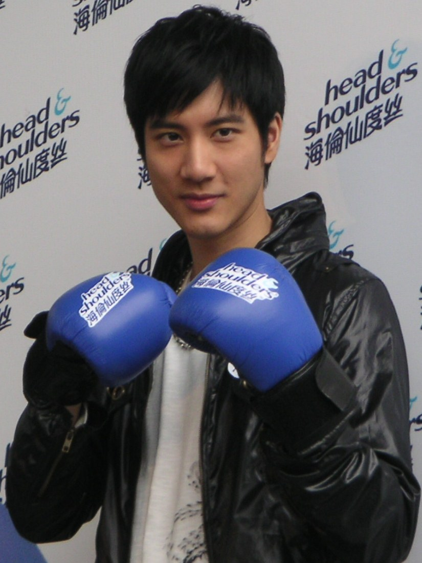 Alexander LeeHom Wang, a famous Taiwanese entertainer and singer.